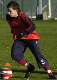 Zoltán Stieber during training for Aston Villa at Bodymoor Heath.